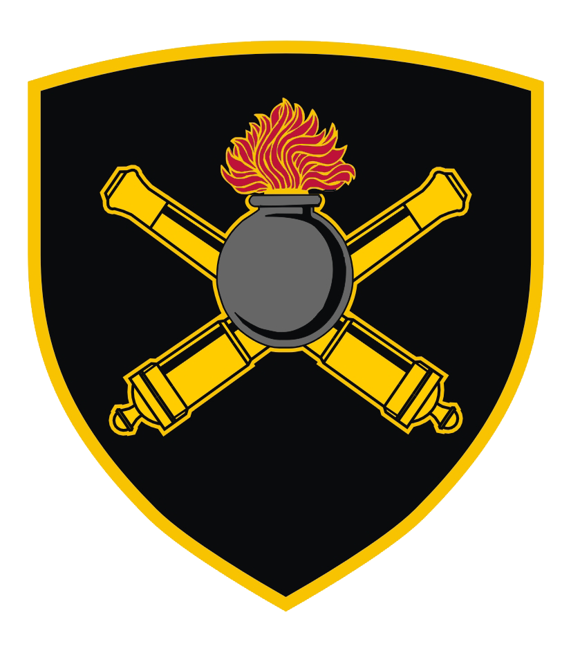 Mixed Artillery Brigade of SLF patch